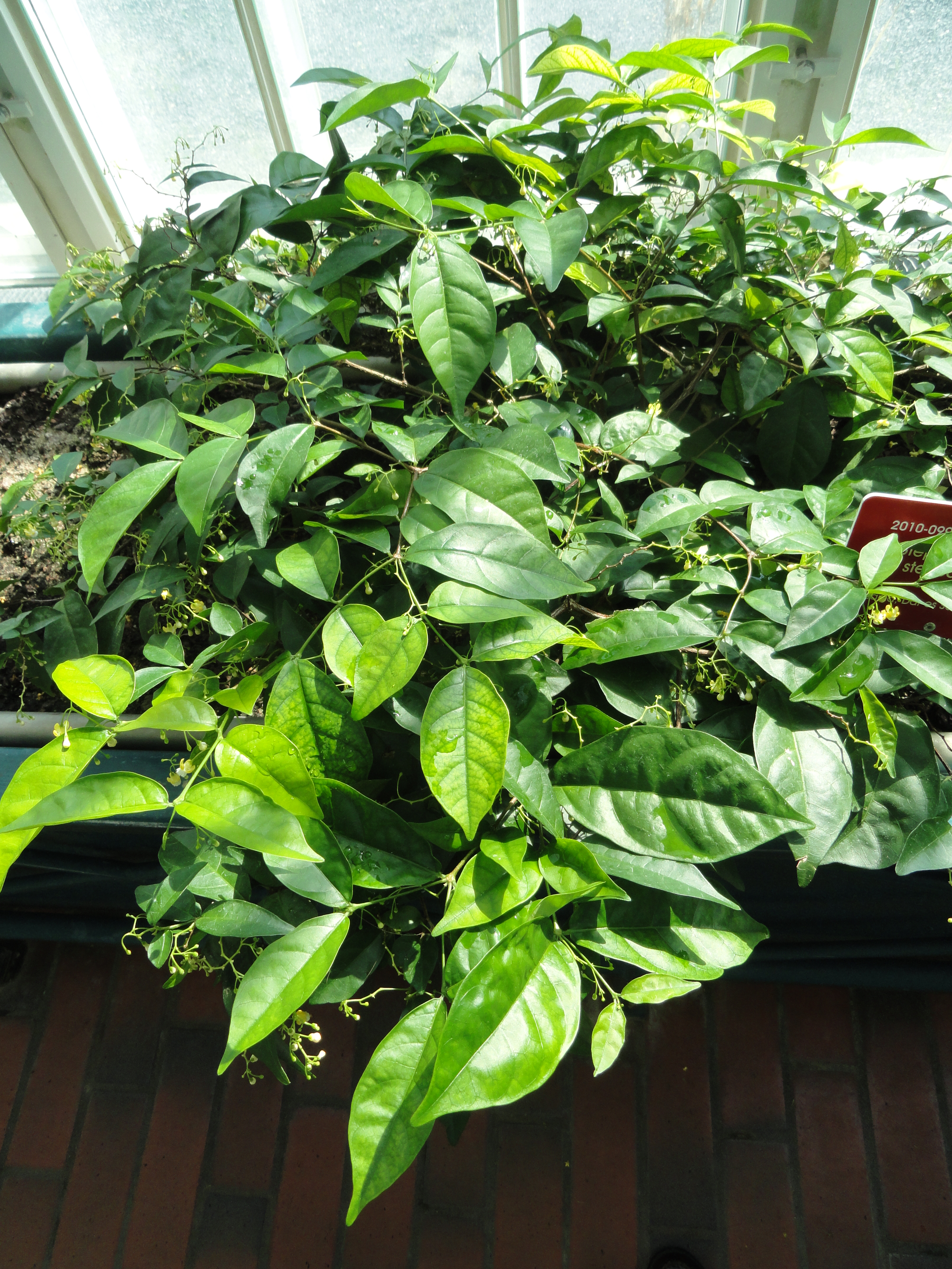 Botanical specimen. The University of Helsinki Botanical Garden at Kaisaniemi